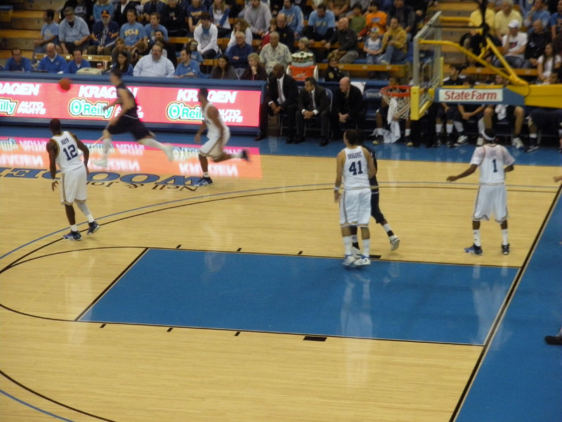 UCLA Bruins vs. FIU basketball at Pauley Pavilion, Nov. 29, 2008